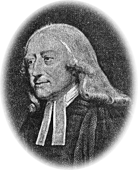 Stripped image of John Wesley